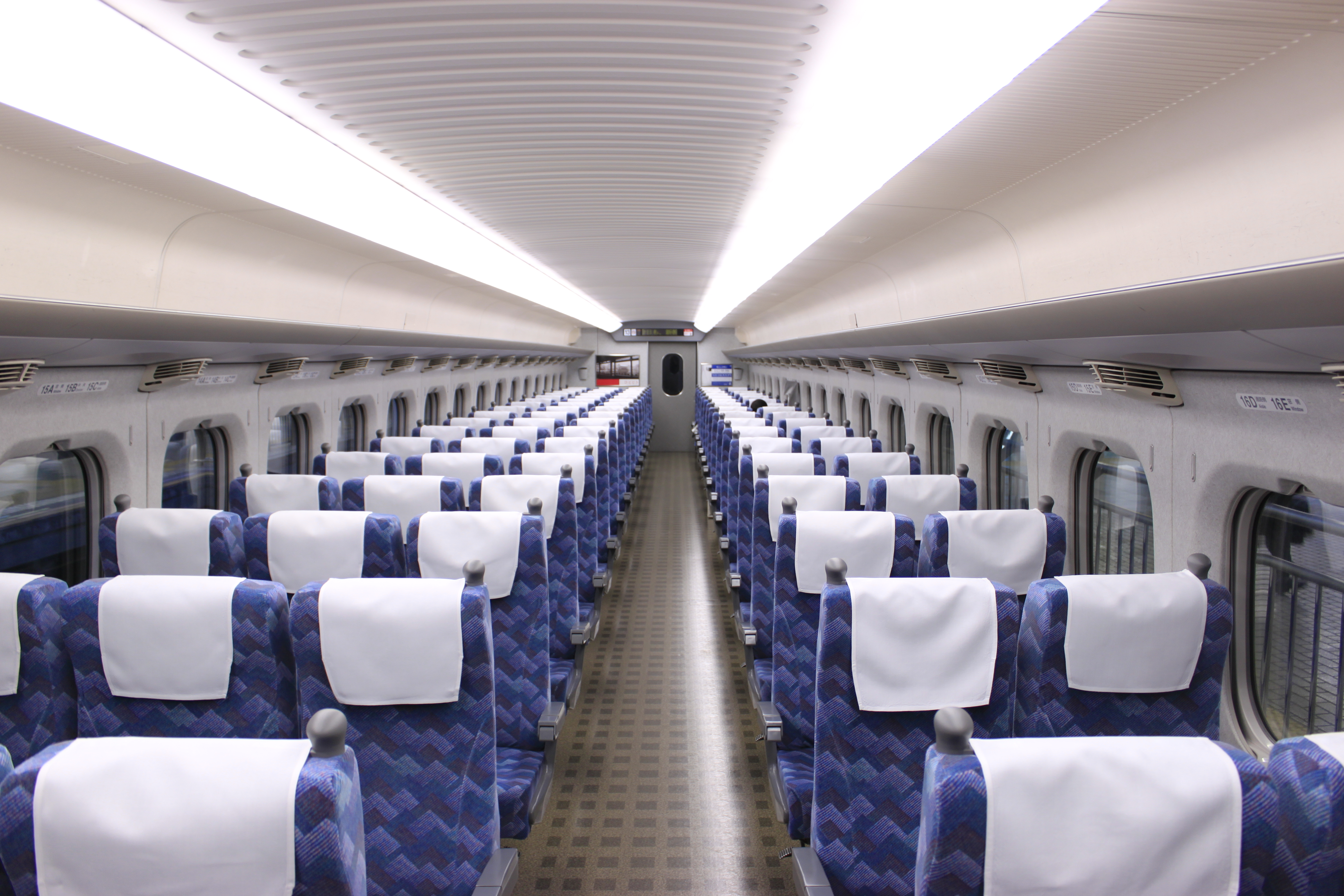 Interior of JR Central 700 series shinkansen standard-class car (car 13)